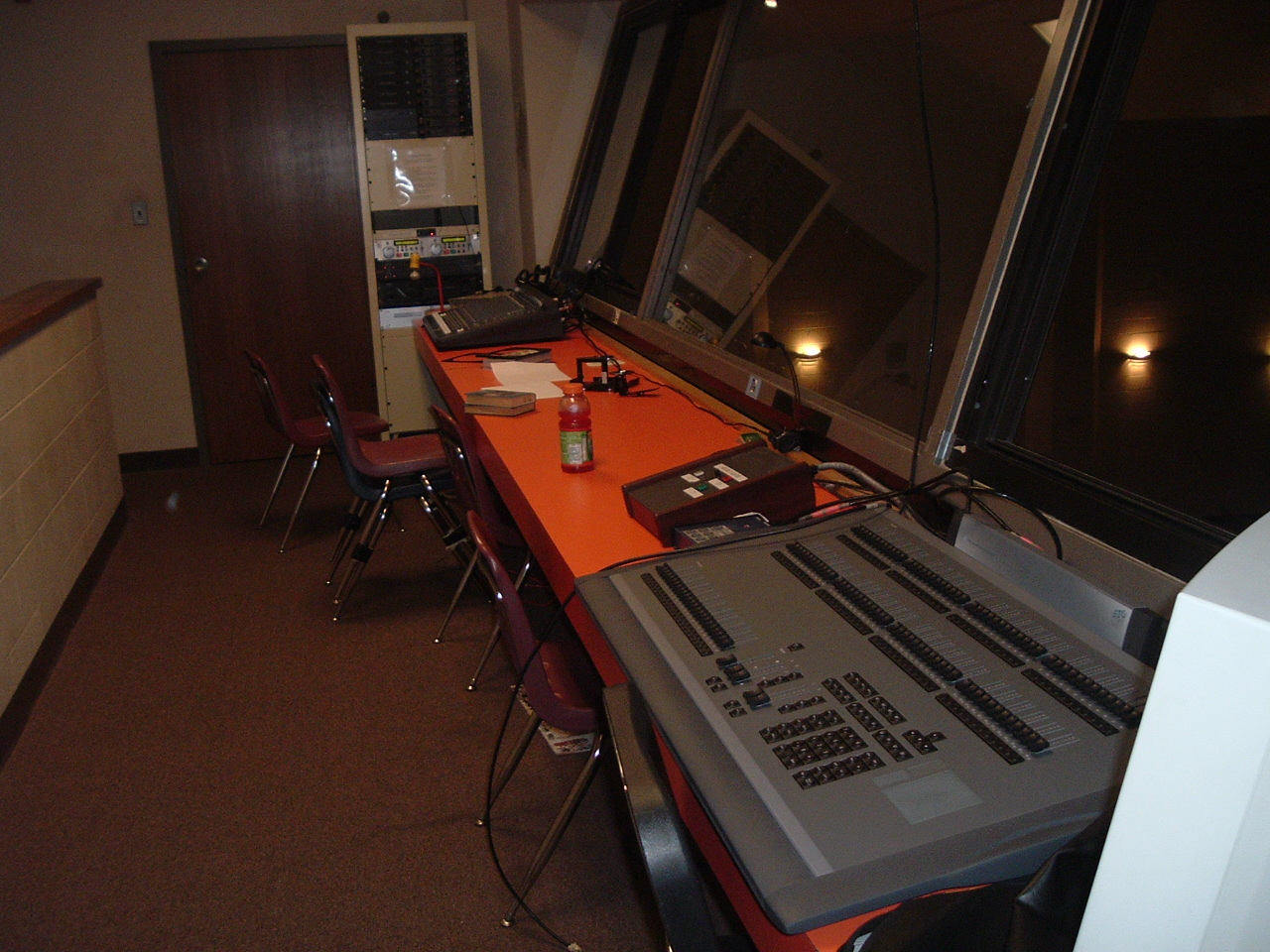 Photo of the Technical Booth at Centreville High School by User:KeepOnTruckin